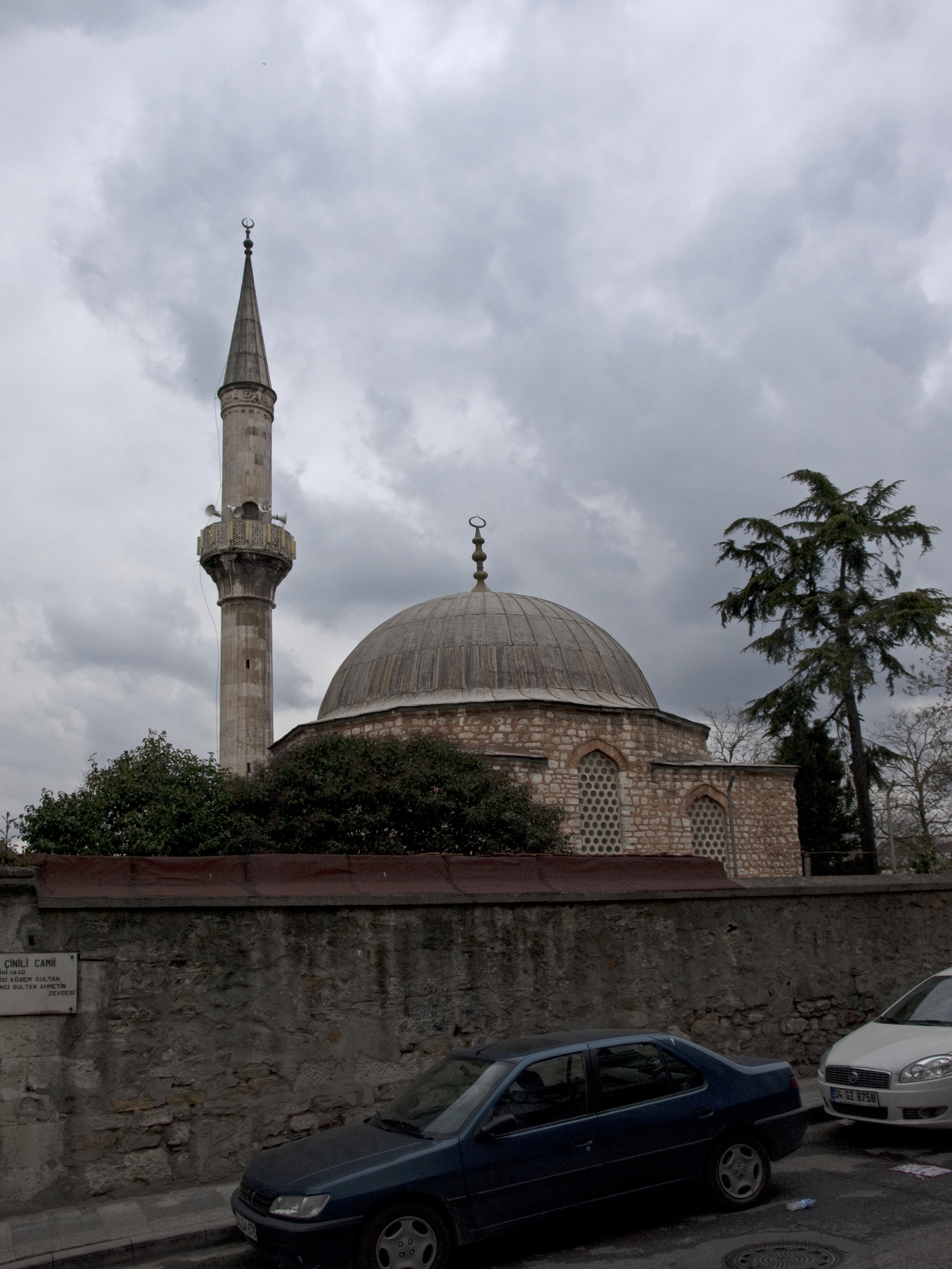 Çinili (Tiled) Mosque in Uskudar